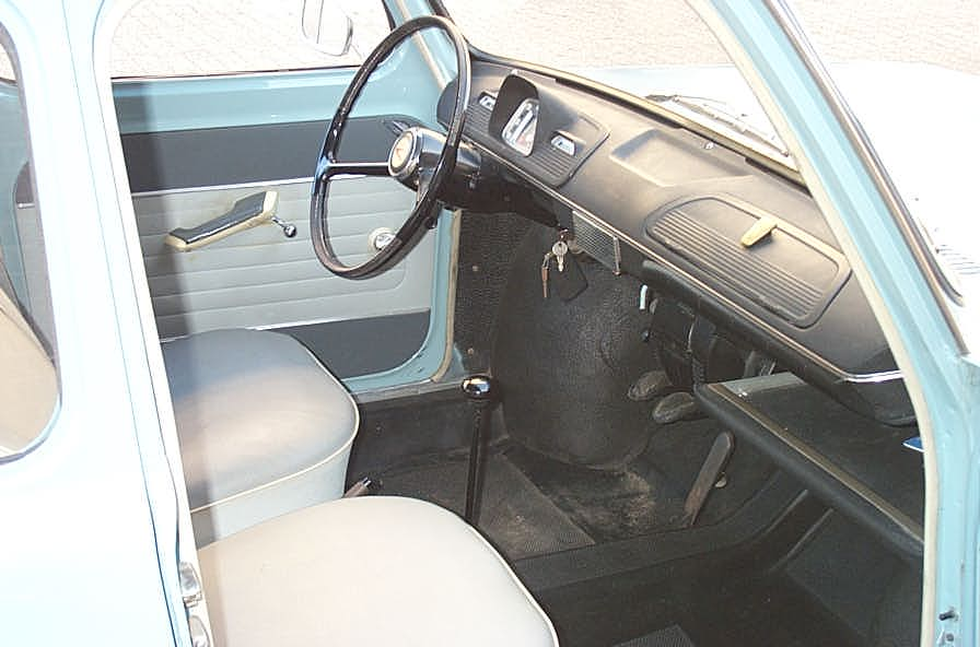 1963 Simca 1000 saloon, alice blue, interior in gray fake leatherFirst registered on 22 August 1963, 51.138 km at the time the photo was taken The vehicle was on sale at the Garage de l'Est at the time the image was uploaded